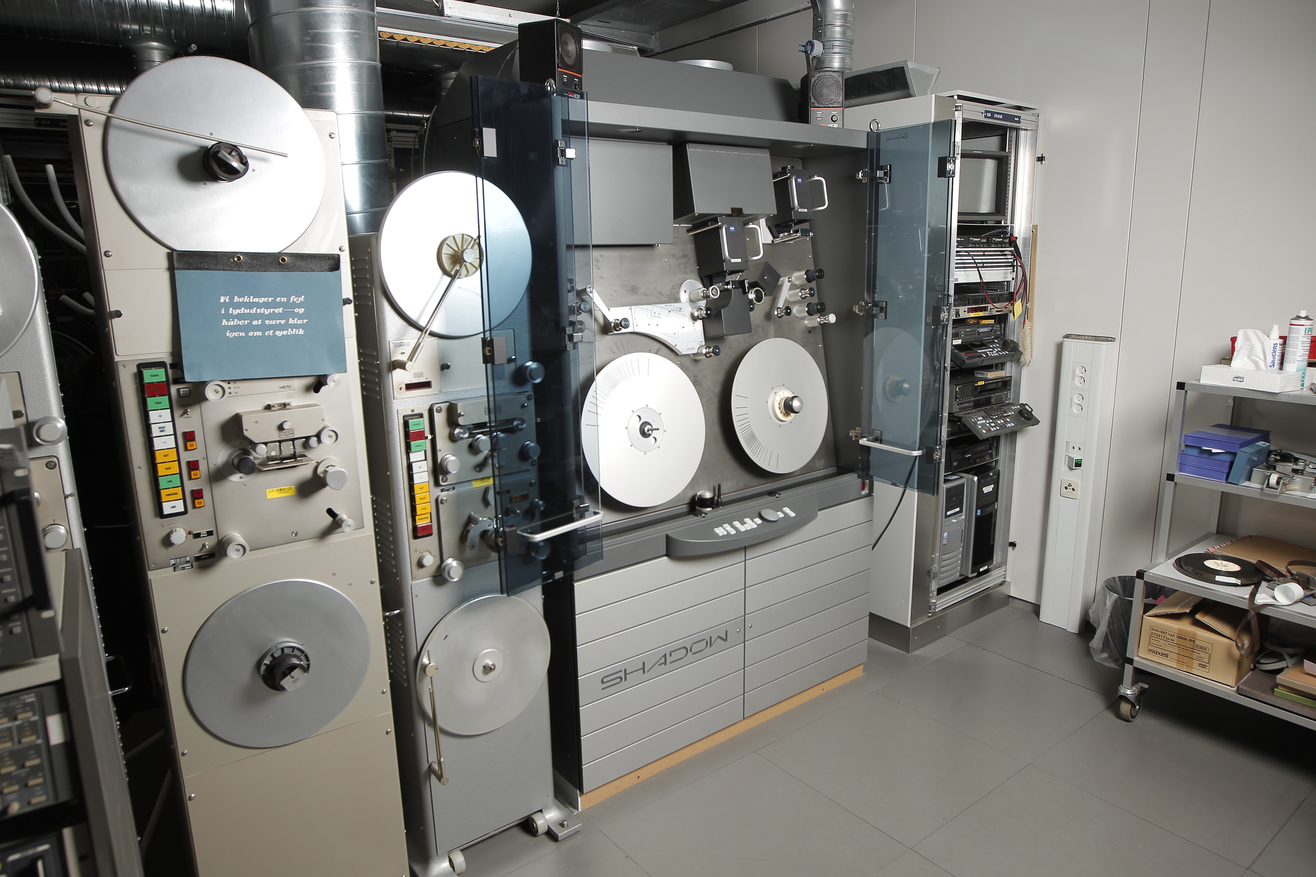 Danmarks Radios arkiv af DRs Kulturarvsprojekt / The archive of the Danish Broadcasting Corporation Photos must be credited "DRs Kulturarvsprojekt"